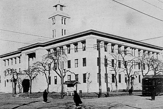 Sendai City Hall circa 1930